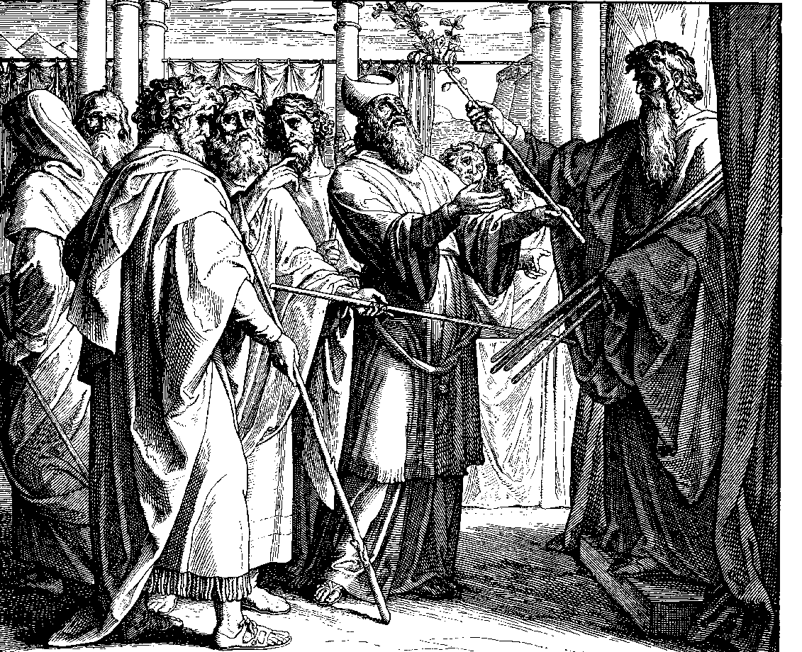 Woodcut for "Die Bibel in Bildern", 1860.